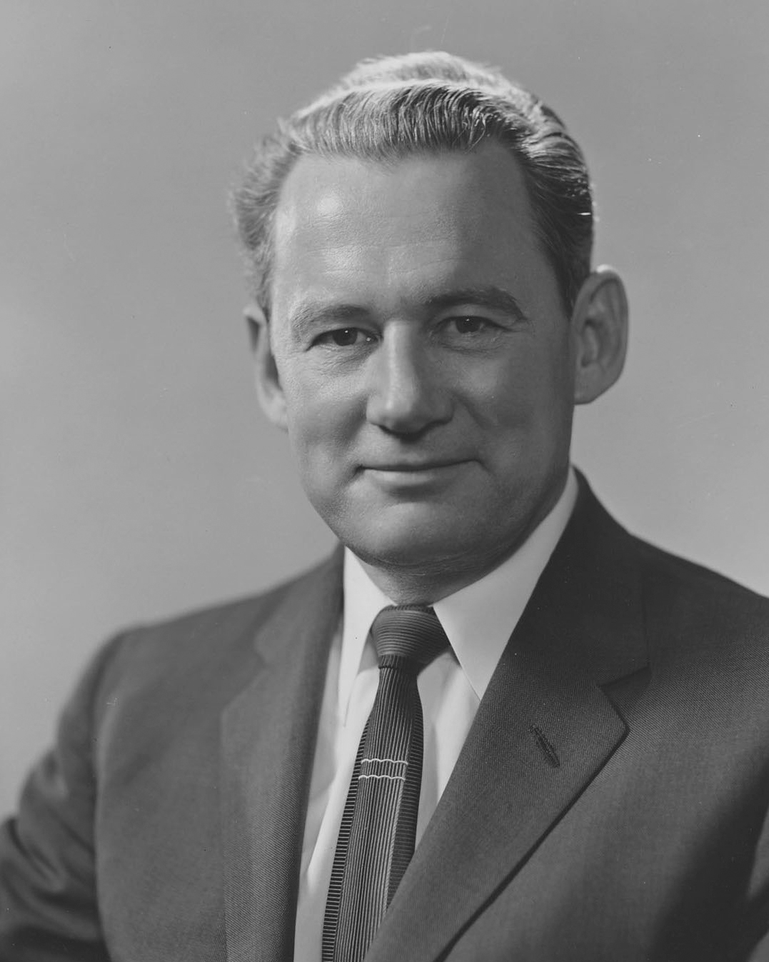 Clair Engle